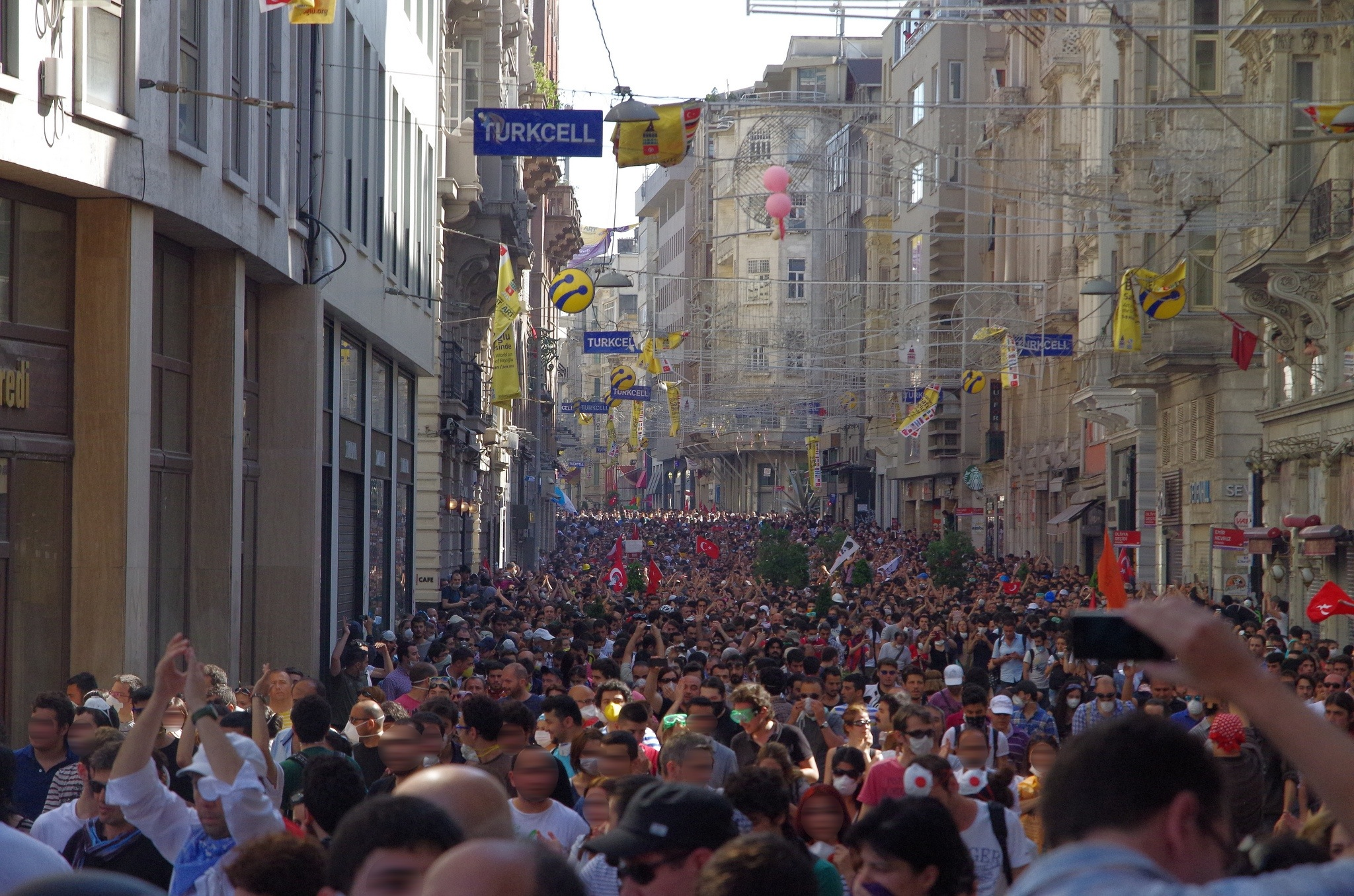 Taksim protests 2013, Istiklal Caddesi